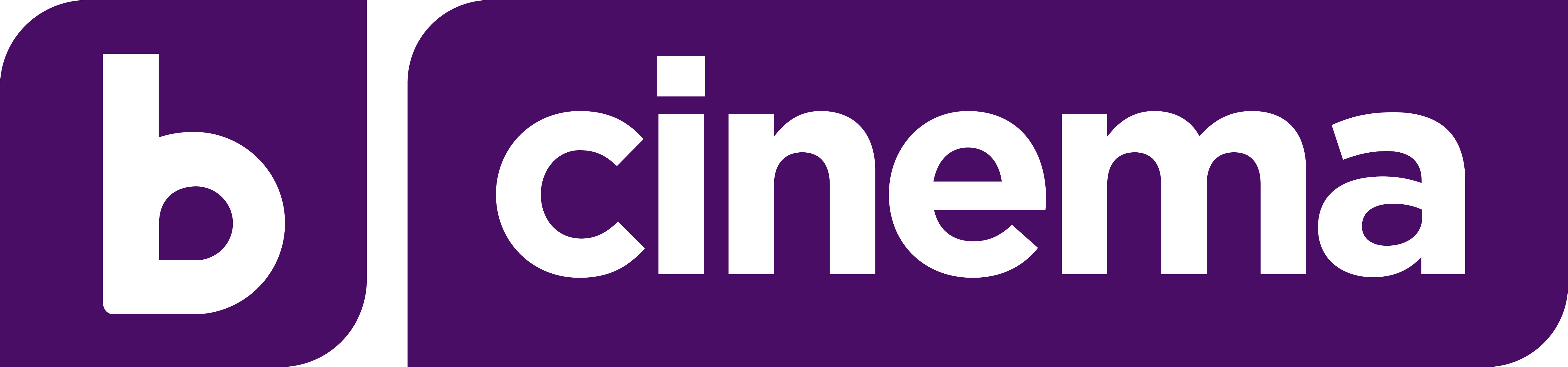 The new logo of the Bulgarian TV channel bTV Cinema.